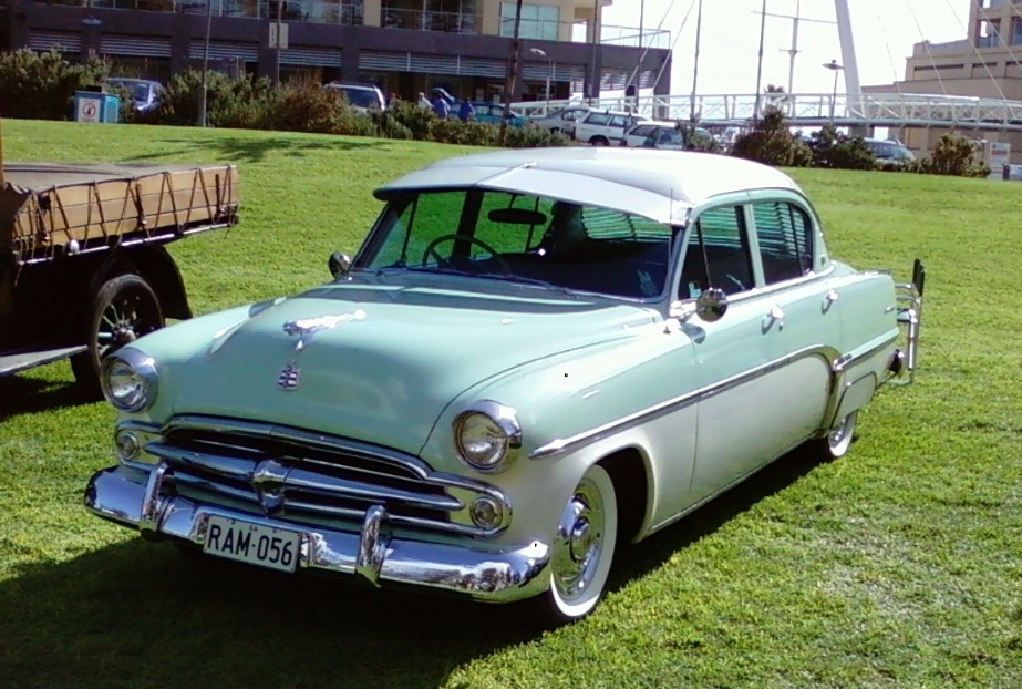 1956 Dodge Kingsway Coronet Sedan (D49 series). The pictured vehicle was built by Chrysler Australia at its Keswick plant in South Australia.